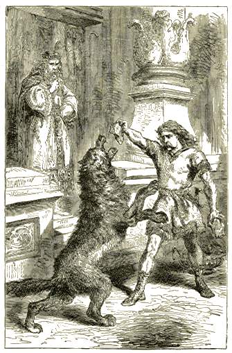 Tyr feeding Fenrir as Odin watches